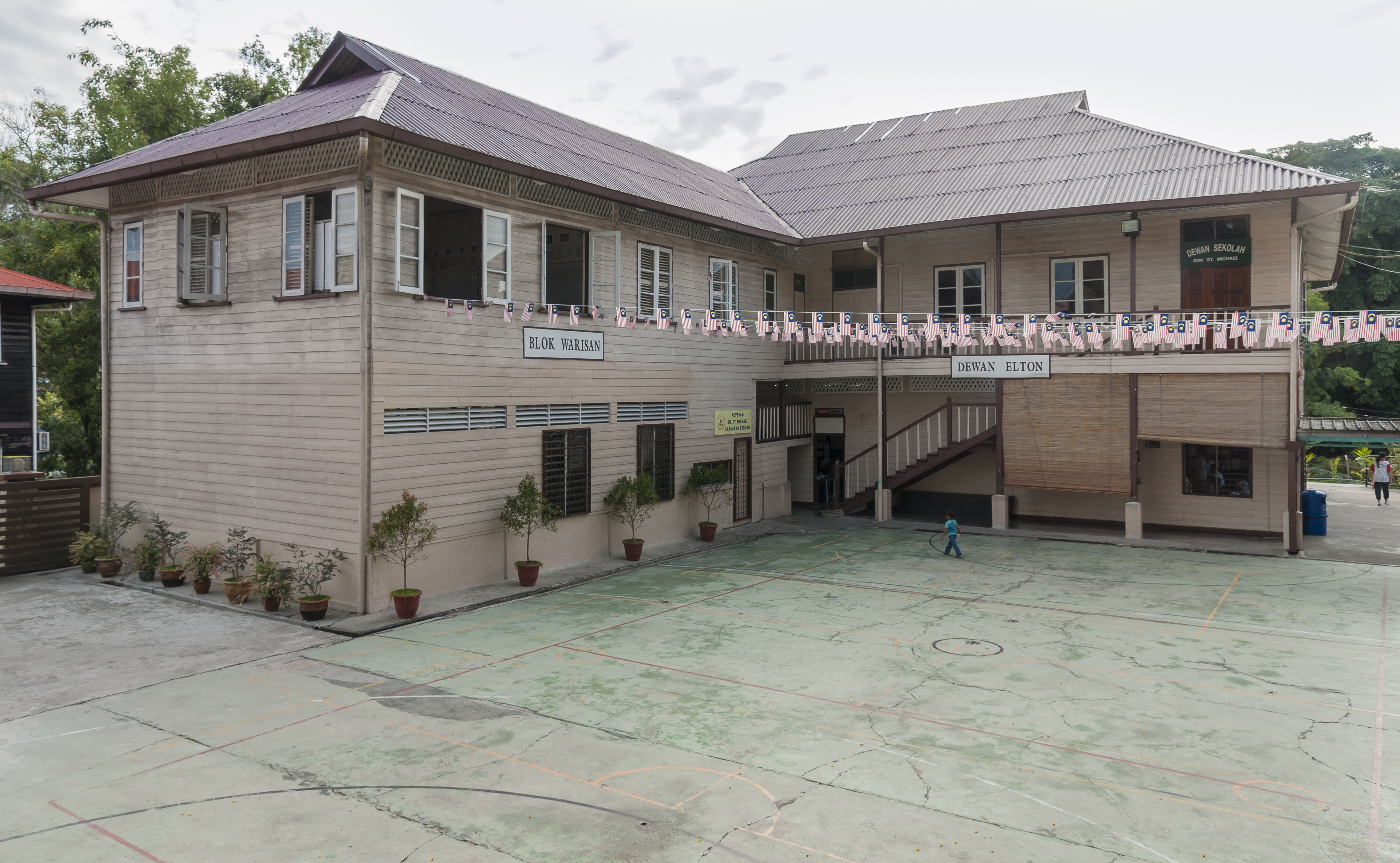 Sandakan, Sabah: St. Michael’s Secondary School (SM St. Michael Sandakan); the historic part of the school building